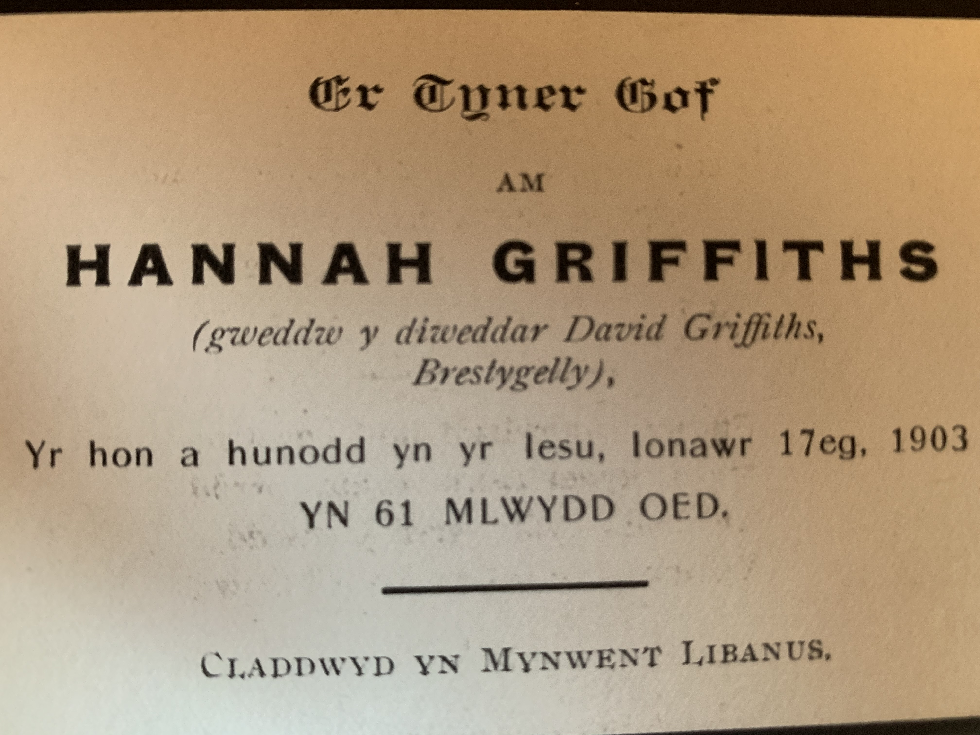 A 'in memoriam card', showing that the Welsh Language was still being used in Libanus in the early 20th century.